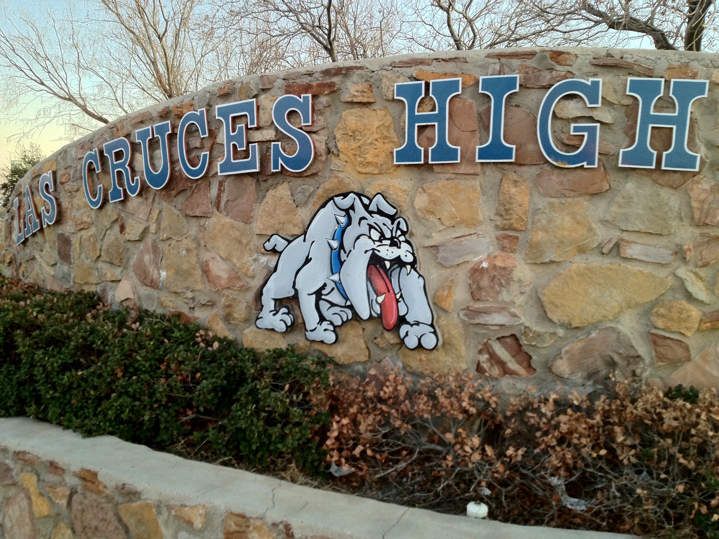 Corner wall featuring mascot, near the entrance to Las Cruces High School, Las Cruces, NM.